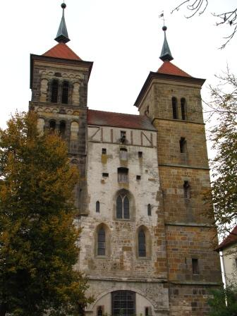 The monastry at Auhausen, Germany.